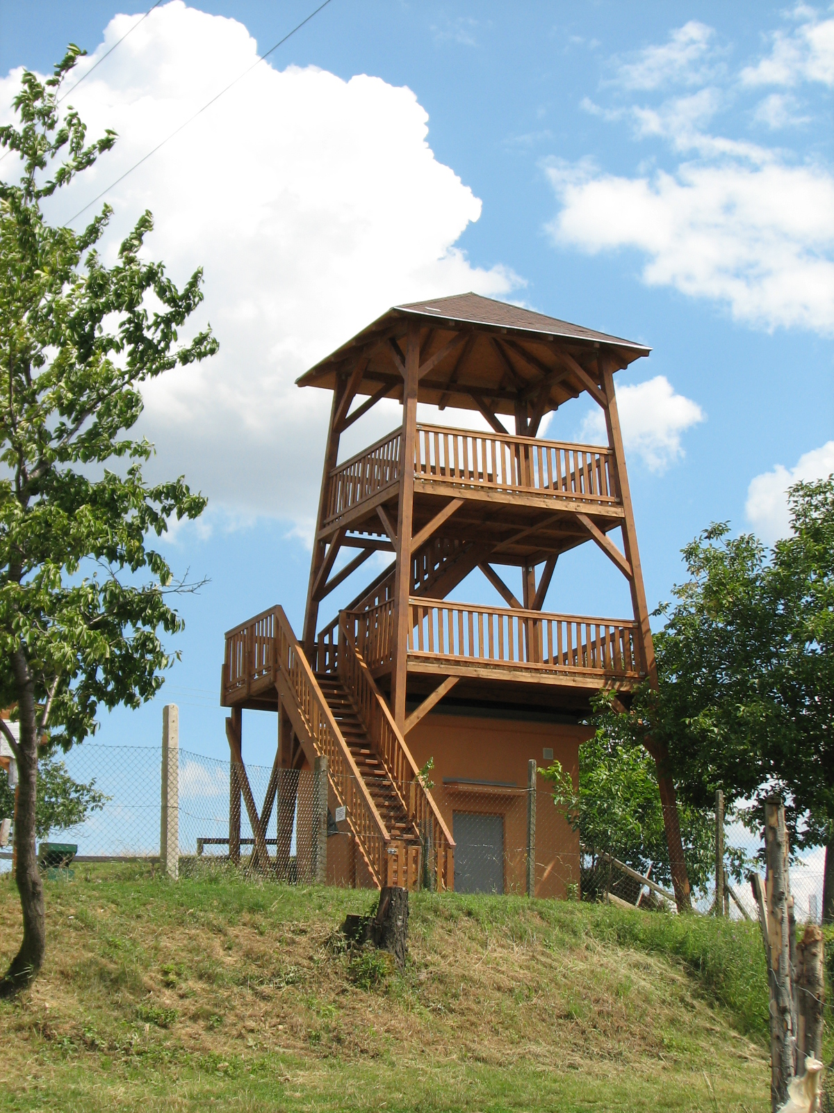 Johanka obsarvation tower in Hýsly